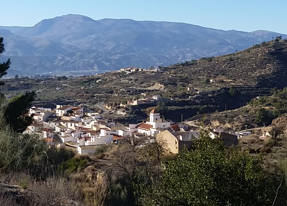 View of Urrácal, Almería, Spain.